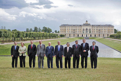 Leaders of the G8 countries at the 32nd G8 summit held at the Constantine Palace in Strelna, Russia. From left to right: Romano Prodi (Italy), Angela Merkel (Germany), Tony Blair (United Kingdom), Jacques Chirac (France), Vladimir Putin (Russia), George W. Bush (United States), Junichiro Koizumi (Japan), Stephen Harper (Canada), Matti Vanhanen (Finland), José Manuel Barroso (Portugal).